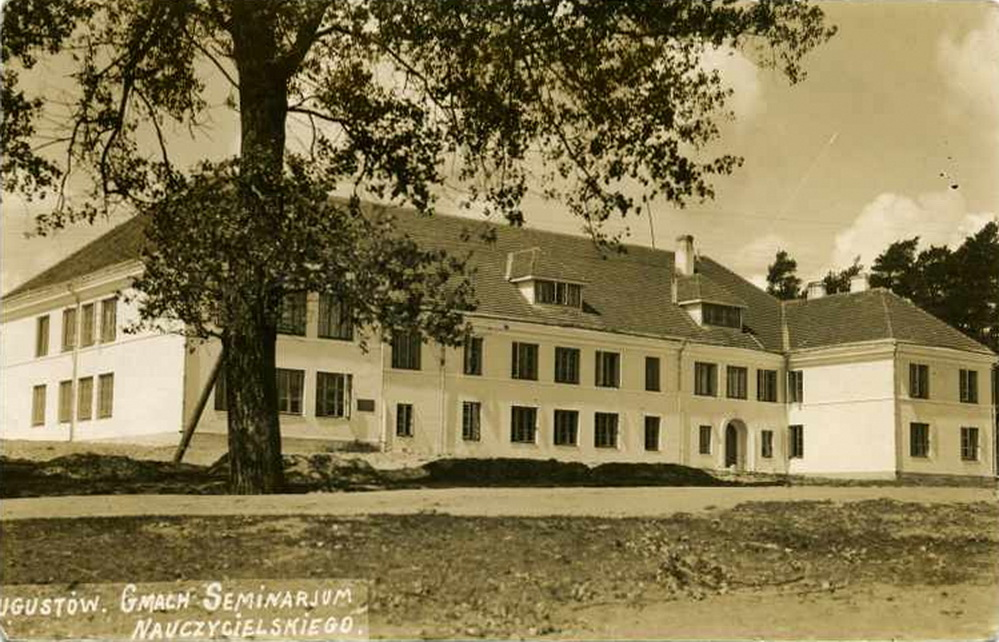 Building of Men's National Teachers' Seminary the name of Grzegorz Piramowicza in Augustów, 1929.